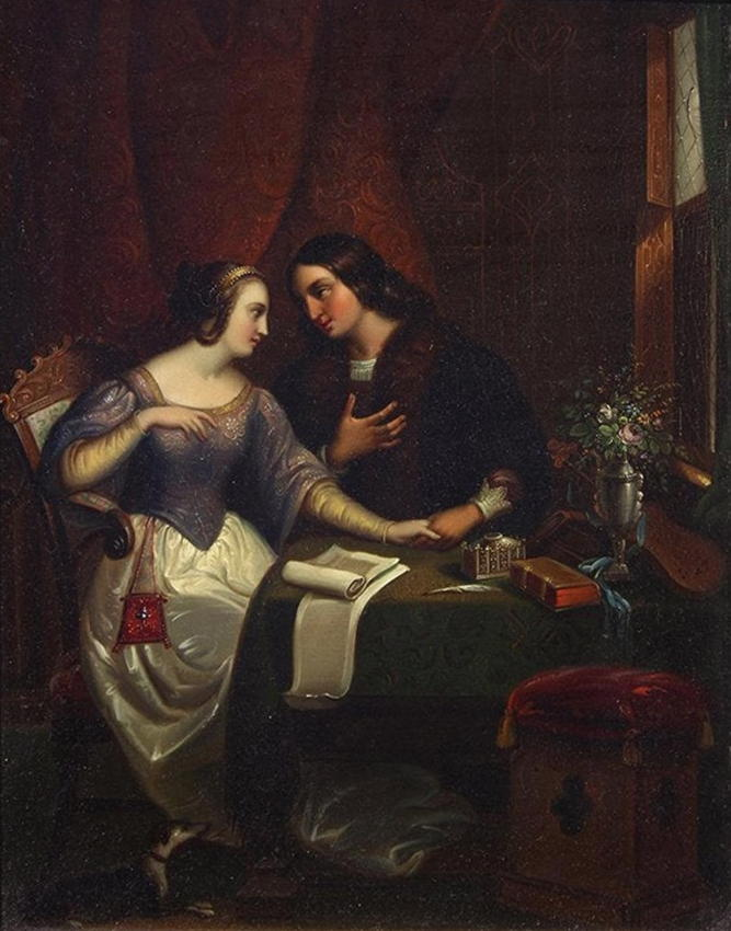 Jean-Baptiste Goyet, Heloise et Abailard, oil on copper, 1829, private collection